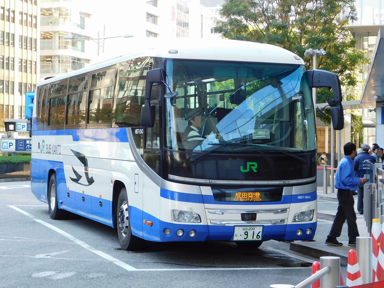 JR Bus Kanto highwaybus "The Access Narita" (Tokyo station-Narita airport)